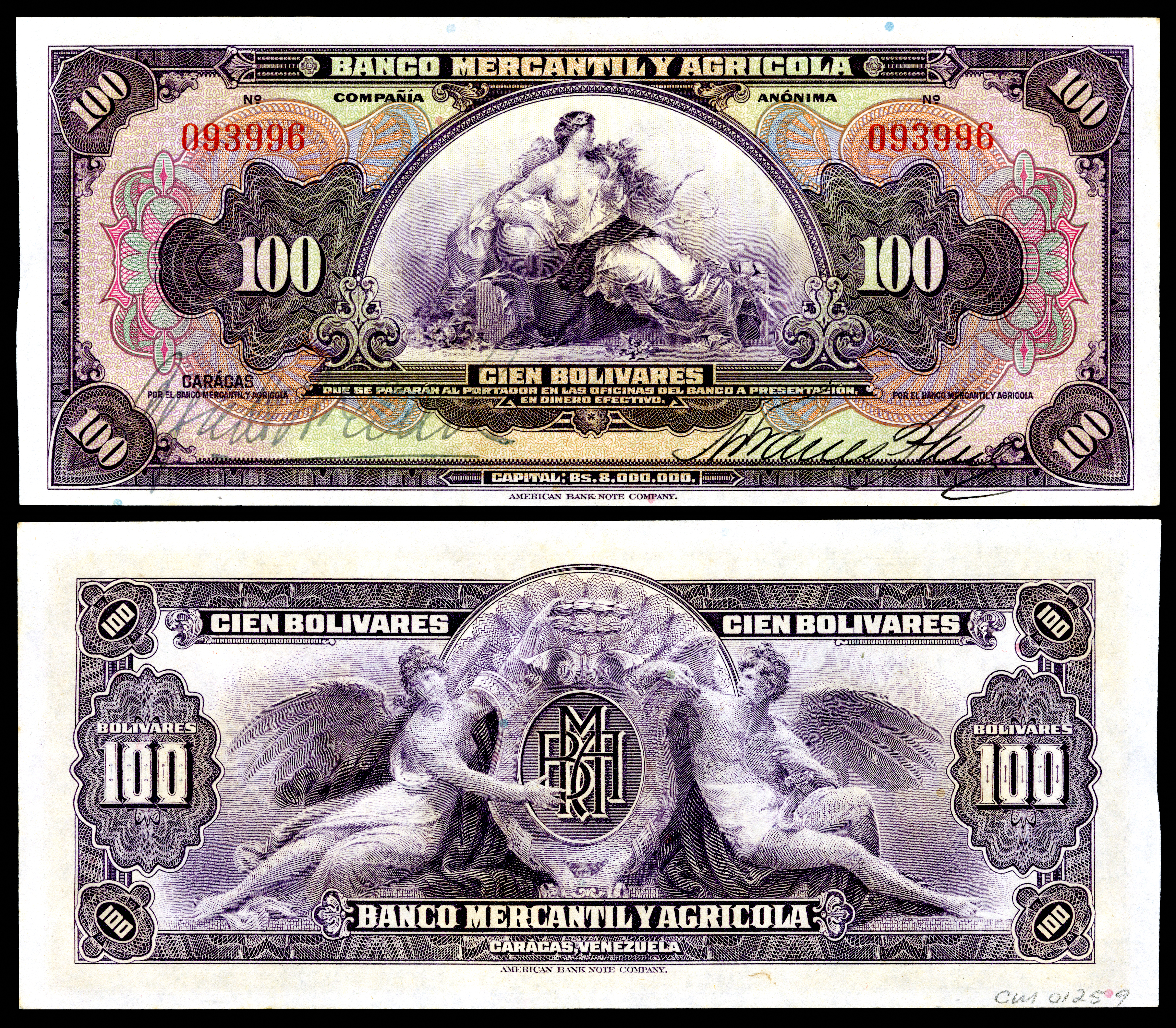 Venezuela, 100 Bolivares, Banco Mercantil Y Agricola (1929). Engraved by the American Bank Note Company.